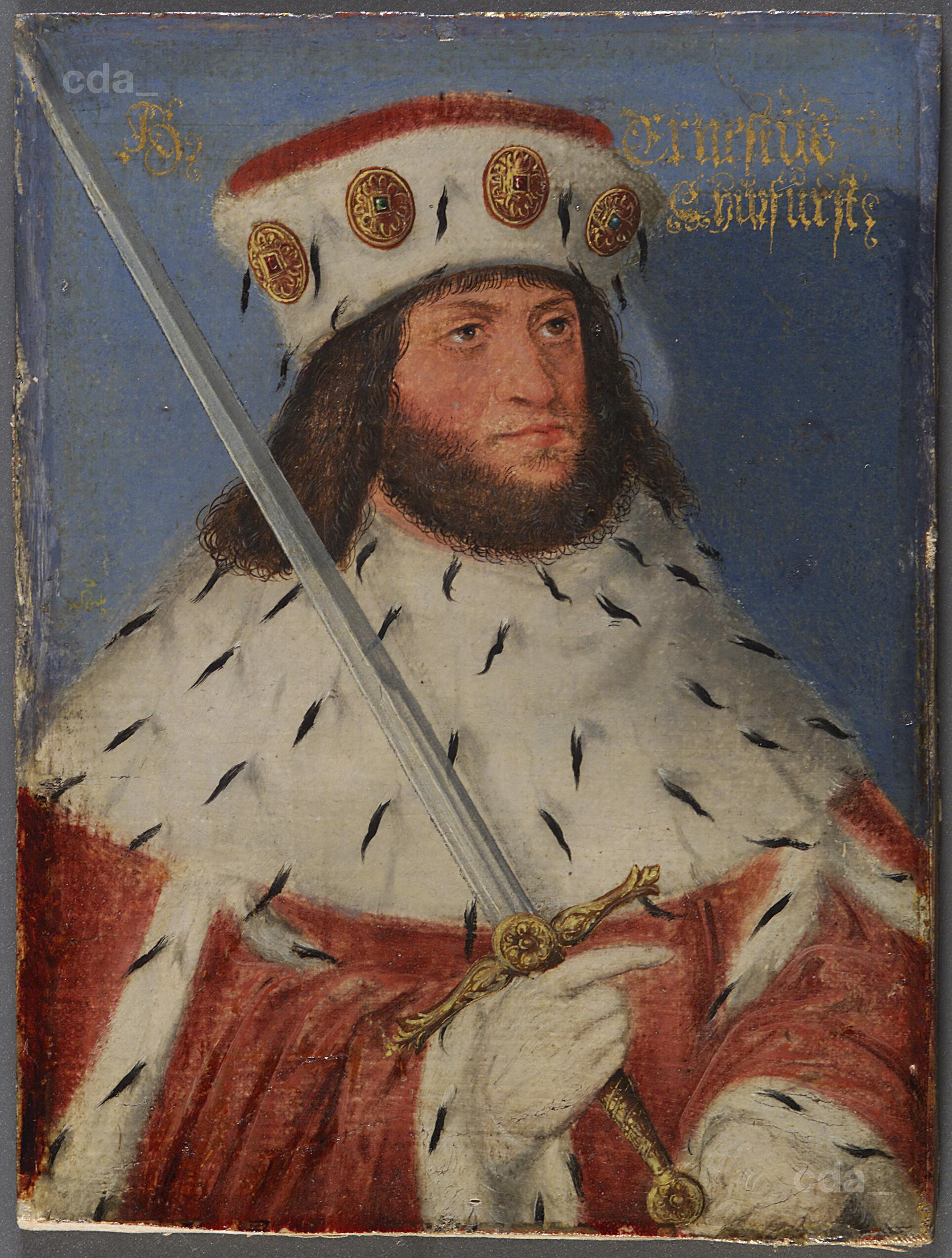 Ernst, son of Friedrich II., died 1486 The portraits by Cranach the Younger have a uniform blue background and a cast-shadow to one side of the sitter. As such they stand out from the other works in the series. Furthermore all 48 images are painted on canvas and not paper. They were later laminated onto wood and in isolated cases cardboard. The very uniform appearance of the reverse of all the portraits belonging to the series suggests that they were attached to the auxiliary support after entering the Ambras collection.